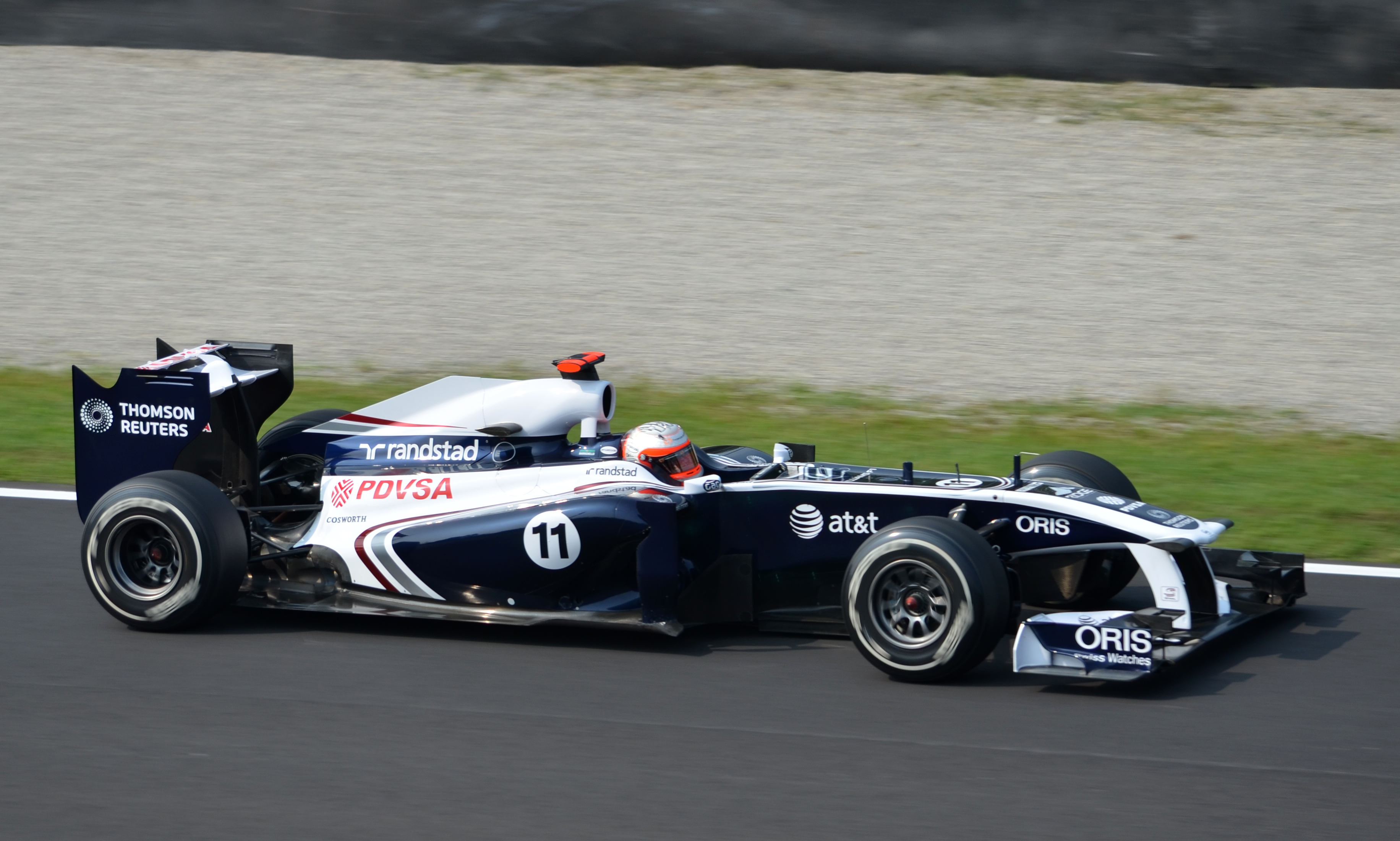 Rubens Barrichello in the Williams - Cosworth FW33 exits the Parabolica corner at Monza during third practice for the 2011 Italian Grand Prix.